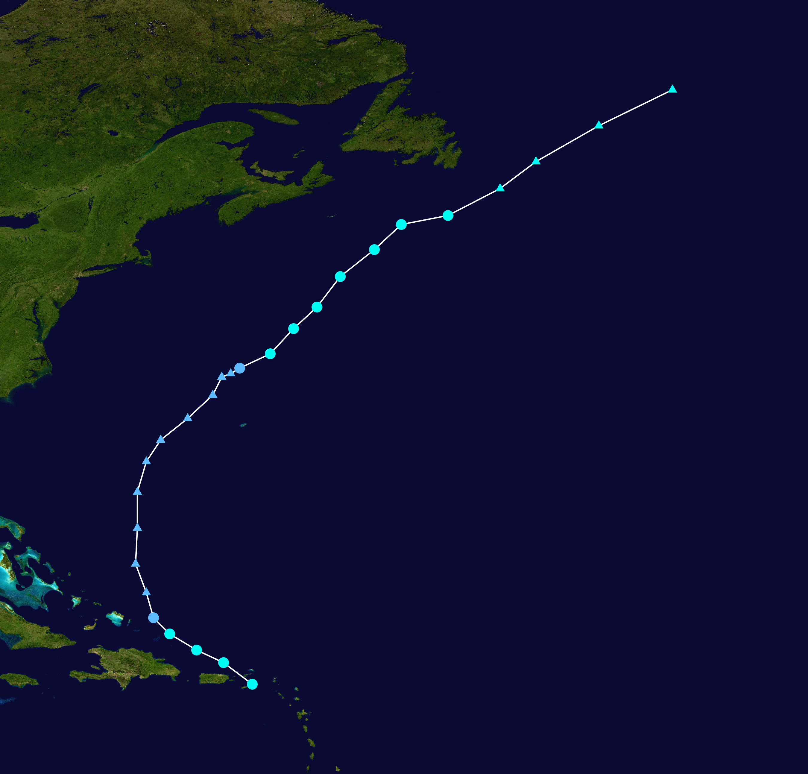 Track map of Tropical Storm Dean of the 2001 Atlantic hurricane season. The points show the location of the storm at 6-hour intervals. The colour represents the storm's maximum sustained wind speeds as classified in the Saffir–Simpson scale (see below), and the shape of the data points represent the nature of the storm, according to the legend below. Saffir–Simpson scale Tropical depression≤38 mph≤62 km/h Category 3111–129 mph178–208 km/h Tropical storm39–73 mph63–118 km/h Category 4130–156 mph209–251 km/h Category 174–95 mph119–153 km/h Category 5≥157 mph≥252 km/h Category 296–110 mph154–177 km/h Unknown Storm type Tropical cyclone Subtropical cyclone Extratropical cyclone / Remnant low / Tropical disturbance / Monsoon depression